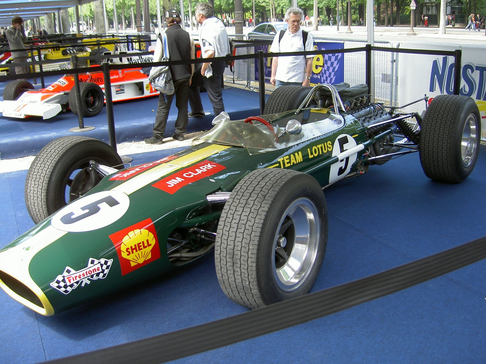 F1 Lotus 49 (early version)